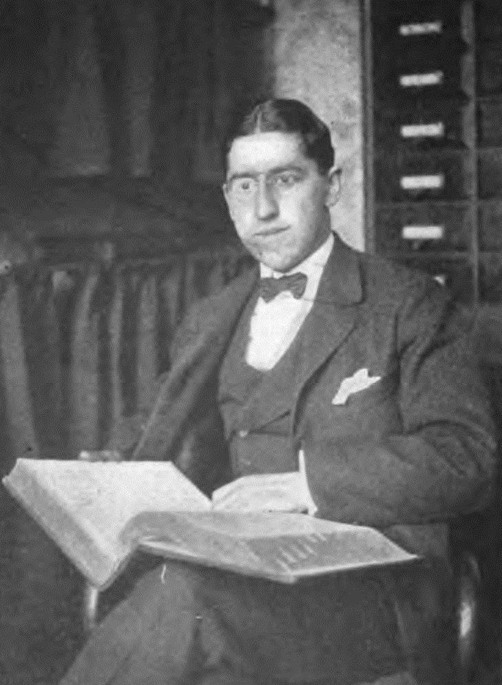 Editor of Leslie's Monthly